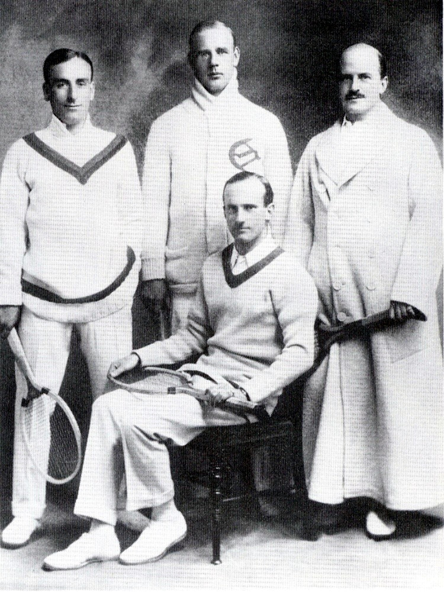 1913 Canadian Davis Cup Team. Pictured from left: Henry George Mayes, Bernie Schwengers (standing), Robert Powell (sitting), and J. F. Foulkes.